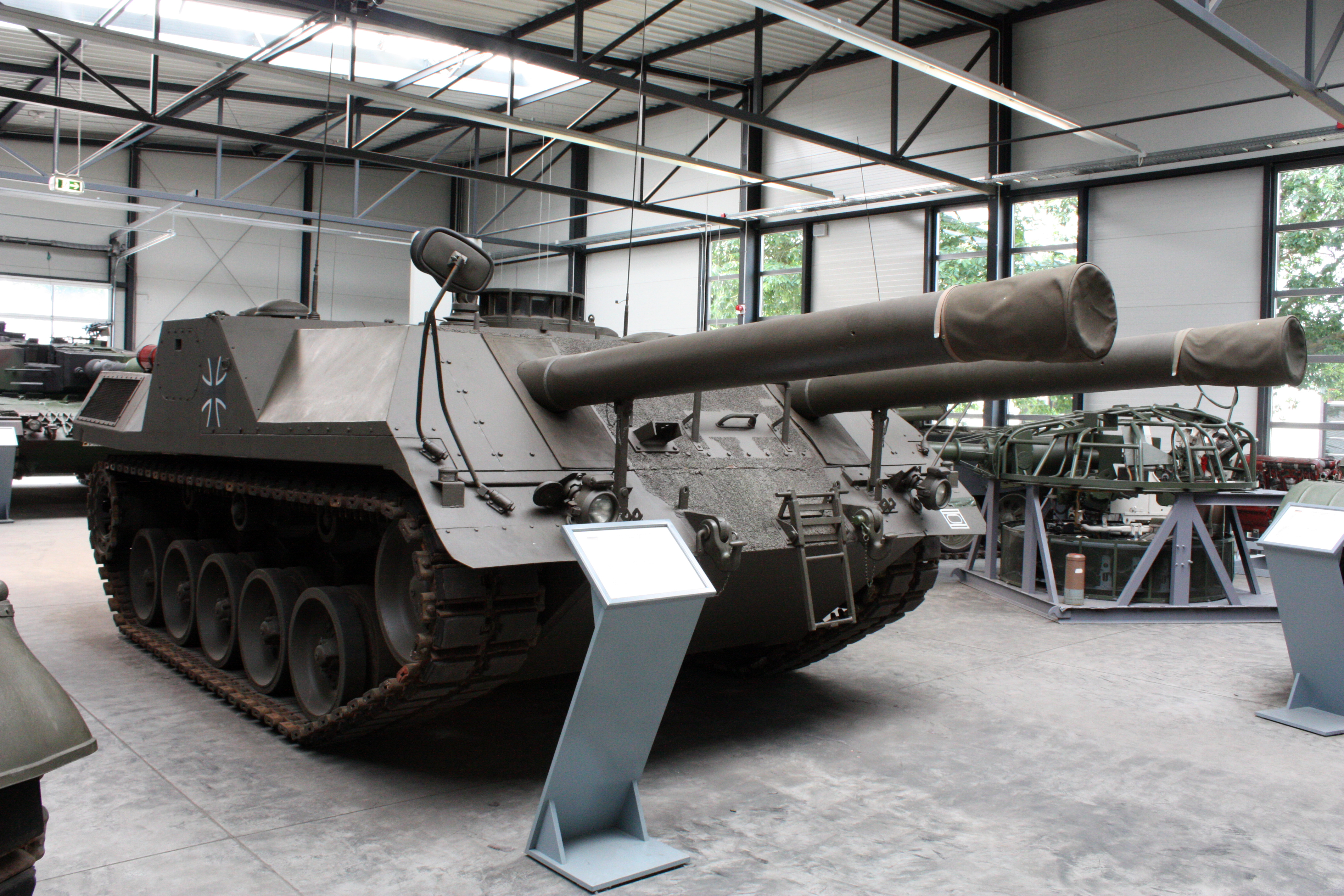 German Tank Museum